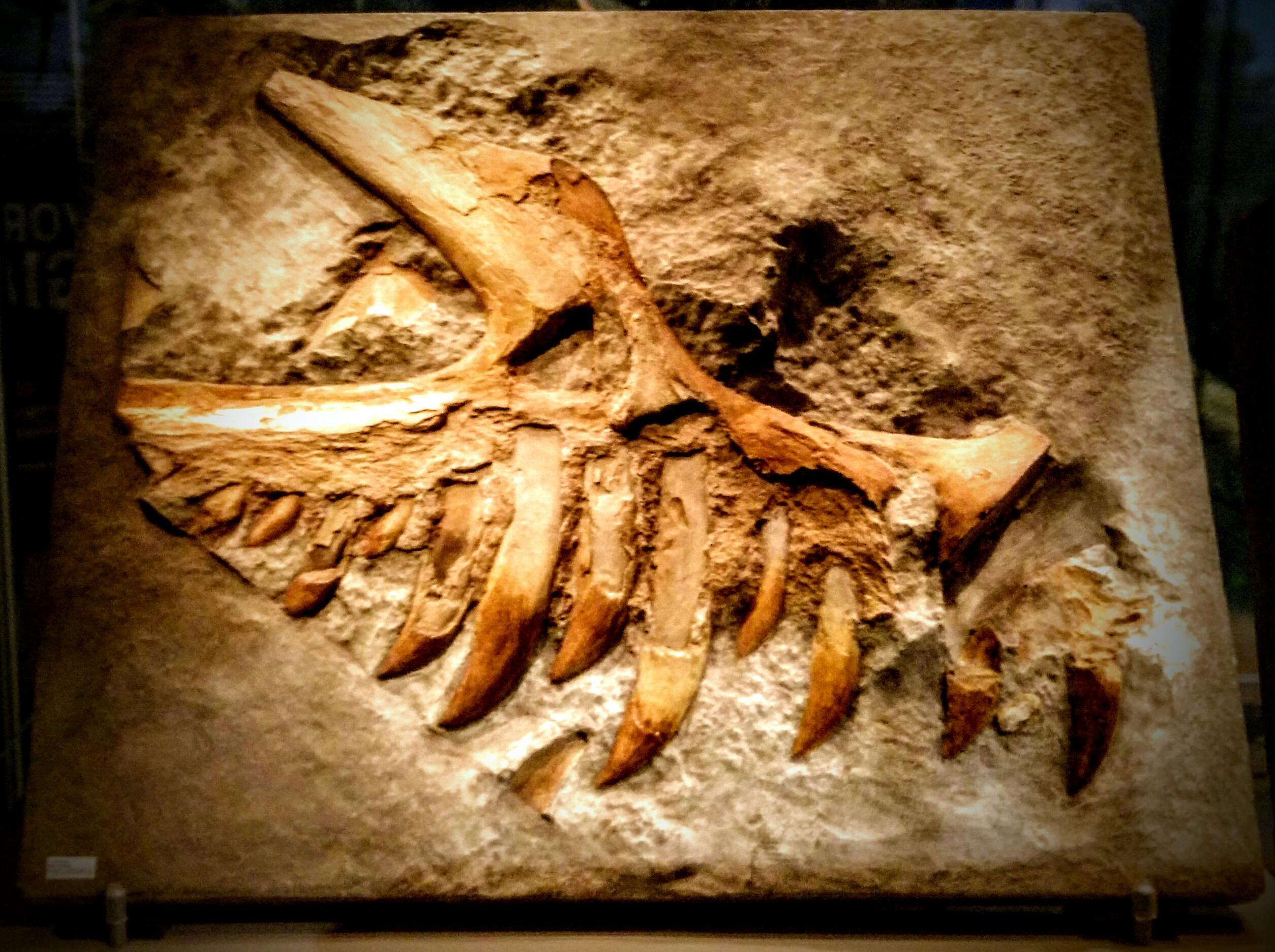 Fossil of Duriavenator